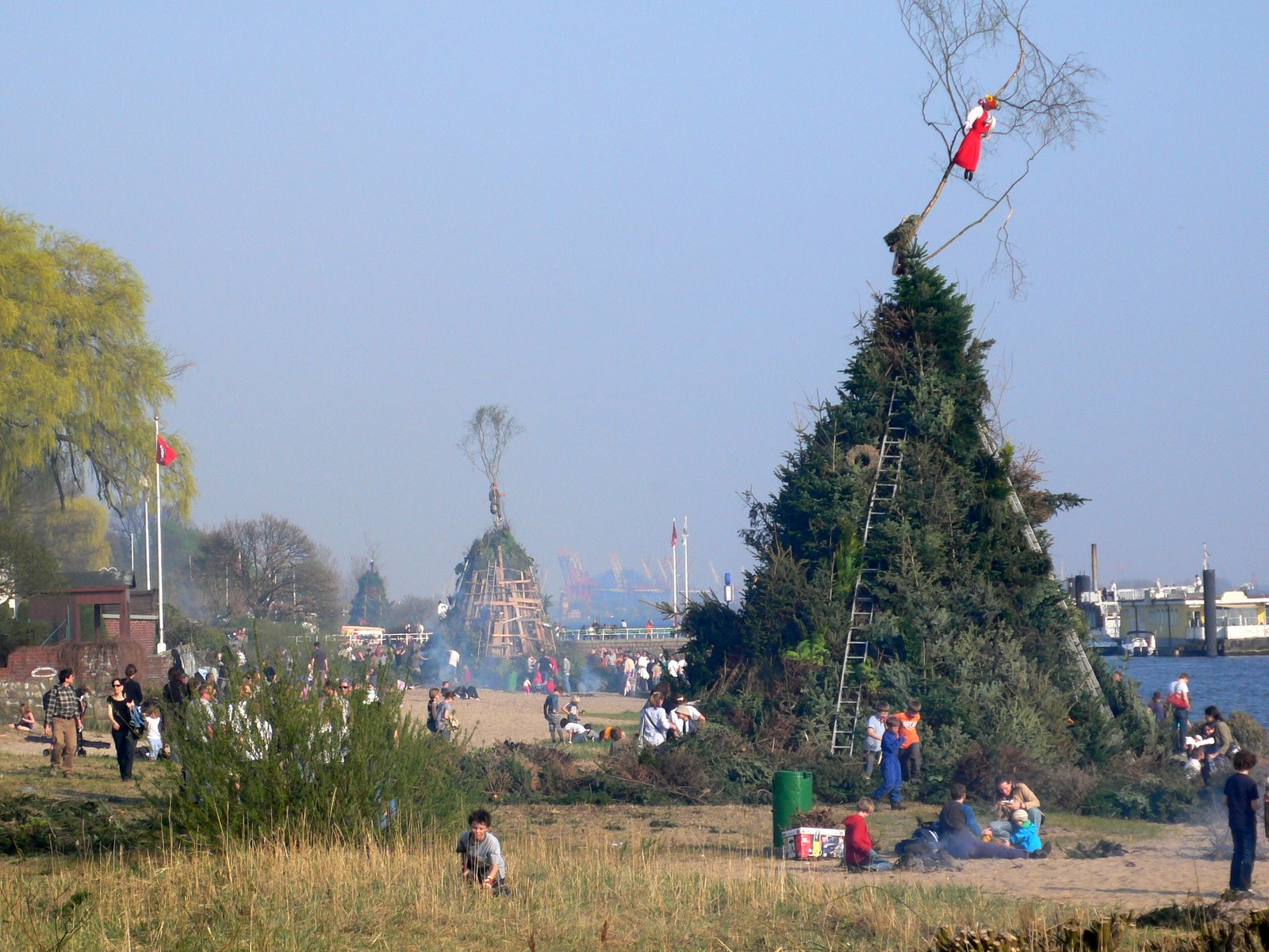 3 Easter Fires on the beach of the river Elbe in Hamburg-Blankenese, Germany, with Hamburg's "Waltershof Container Terminal" in the background